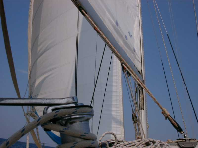 Sailing on a 30 ft yacht on the Aegean Sea